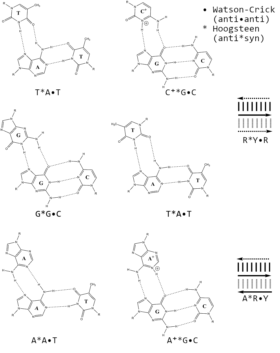 Base triads in a DNA triple helix structure. In each triad the base shown on the top left forms Hoogsteen hydrogen bonds with the base in the middle. The triads are grouped according to whether they form a triplex of the form YR*Y or YR*R ((Y is a pyrimidine, R is a purine, * is a Hoogsteen pairing). The arrow diagrams on the right indicate the direction and types of the strands forming YR*Y and YR*R triplexes : thick vertical lines, Watson-Crick base pairs; dashed vertical lines, Hoogsteen hydrogen base pairs; solid arrows, purine strands; dashed arrows, pyrimidine strands. ERROR: TAT AND TAA are labelled wrong/backwards. Figure based on Frank-Kamenetskii and Mirkin (1995) Ann. Rev of Biochem. 64:65-95, drawn with ChemBioDraw Ultra.